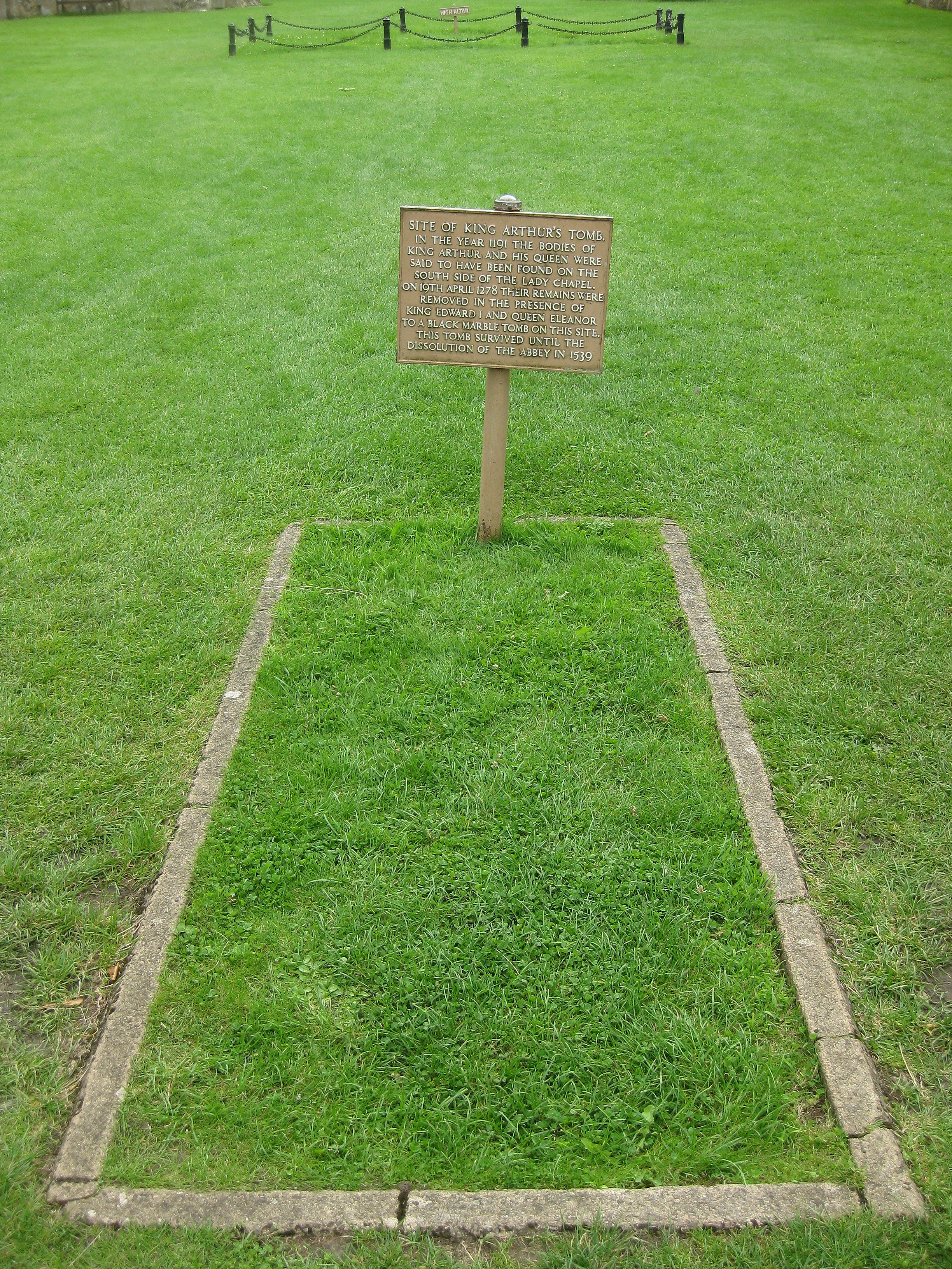 Site of King Arthur's tomb at Glastonbury Abbey, Glastonbury, Somerset, UK